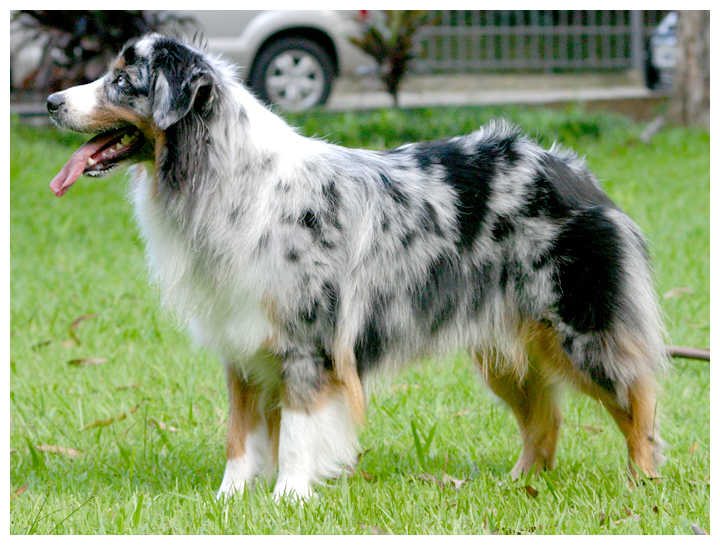 australian shepherd blue merle 1 year old